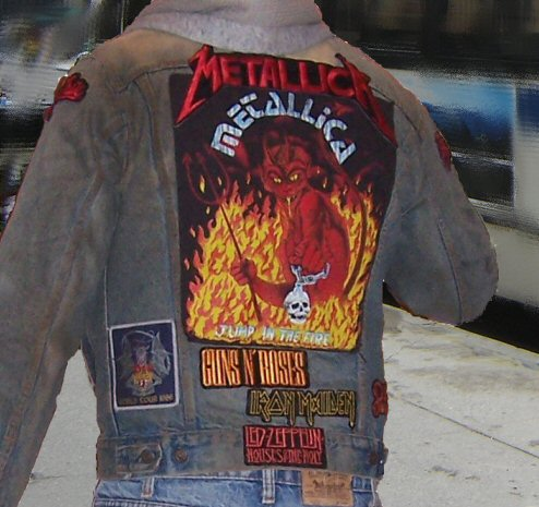 Heavy Metal Jean Jacket